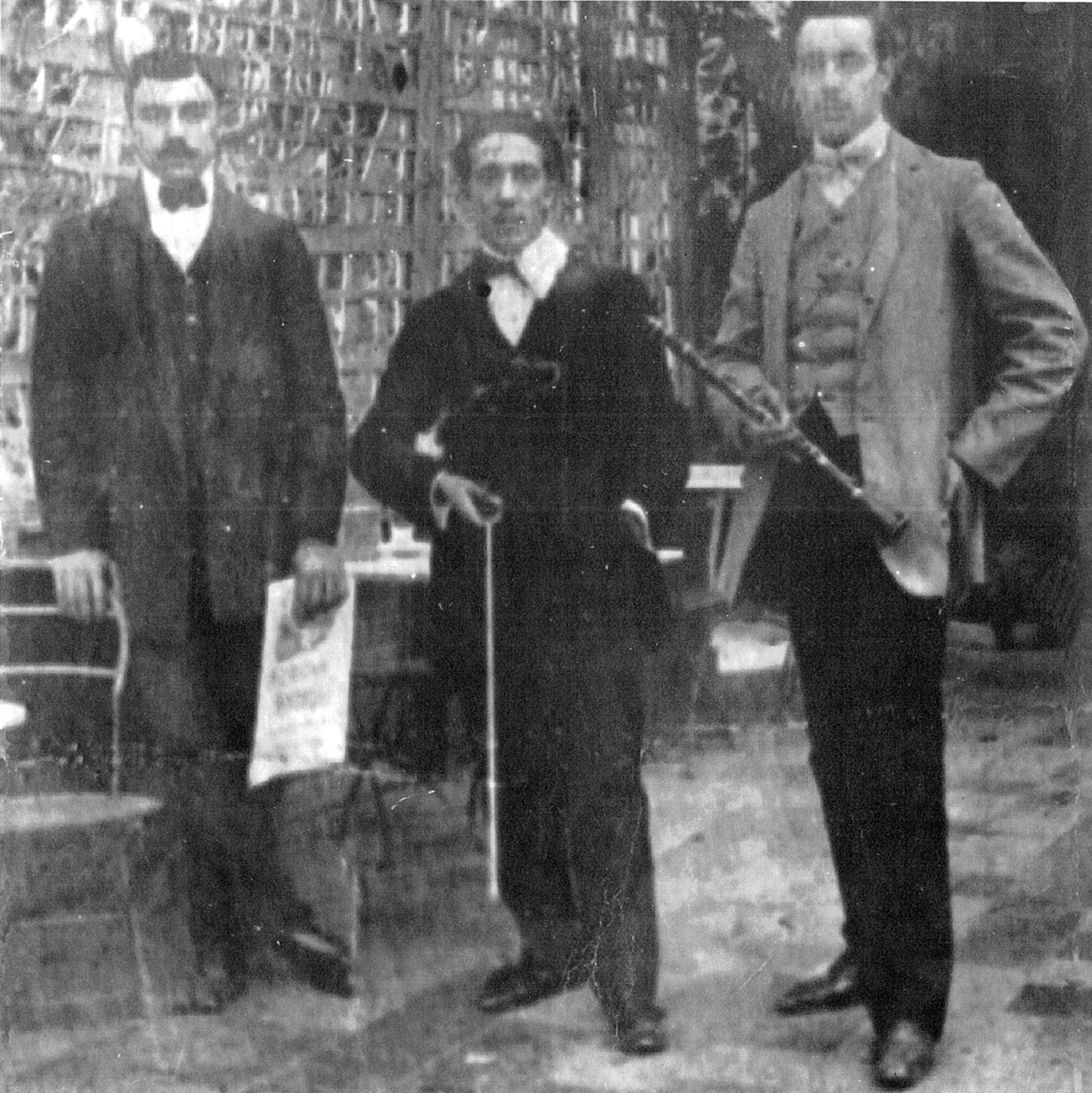 Composer of Tango Argentino Roberto Firpo and his first trio